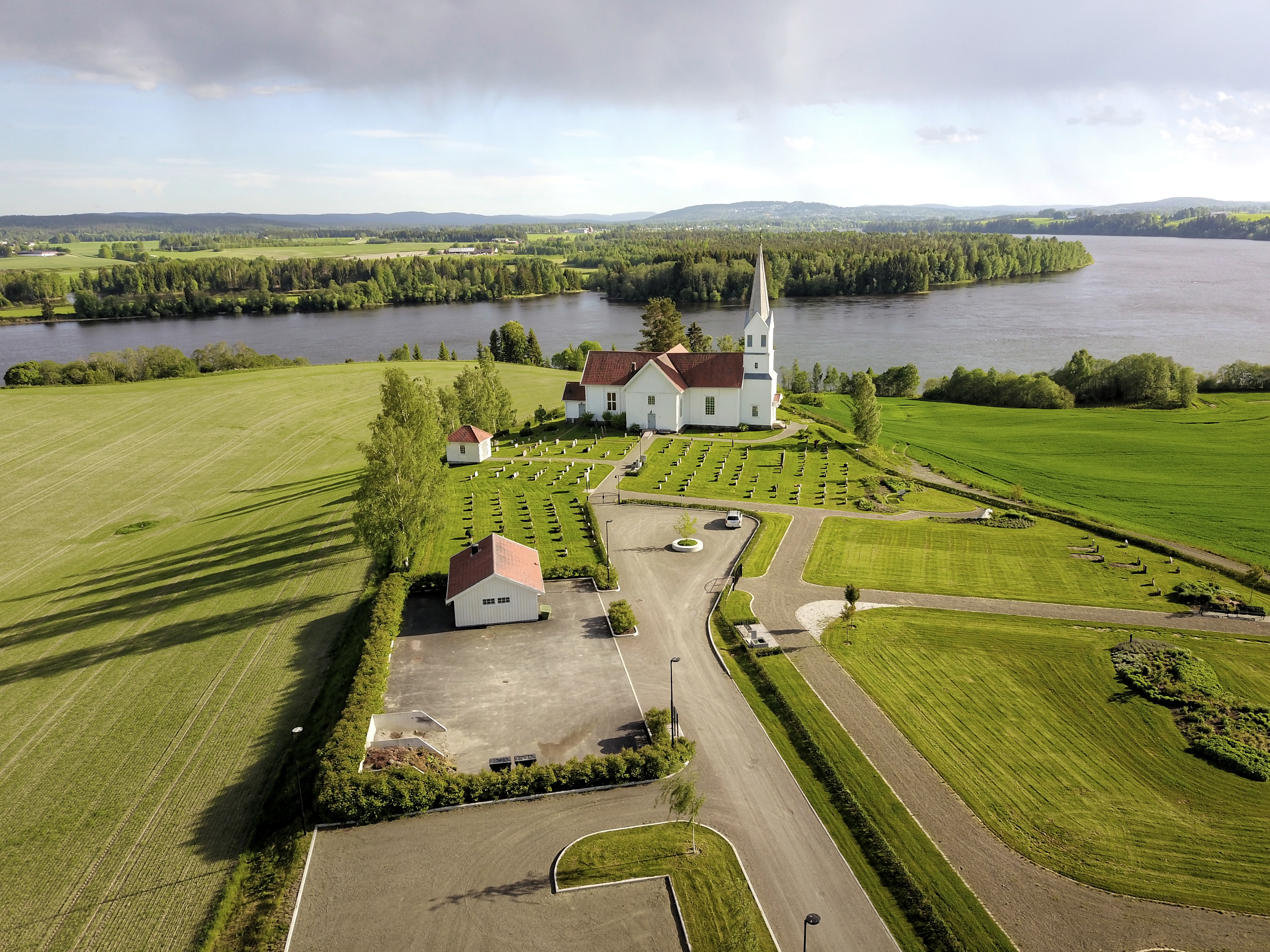 Udnes church in Nes municipality, Akershus, Norway with Glomma river in the background